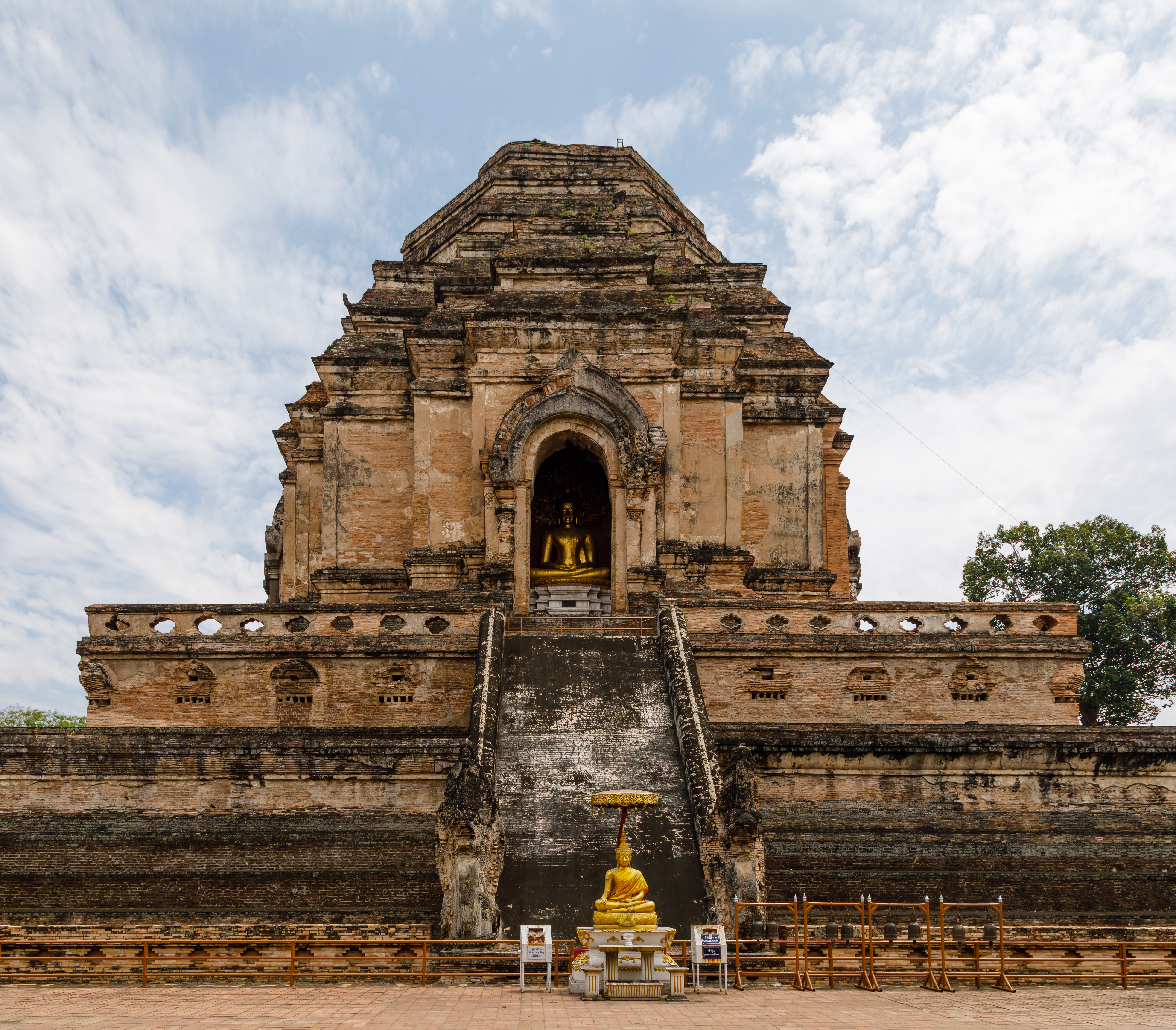 Chiang Mai, Thailand: Wat Chedi Luang stupa